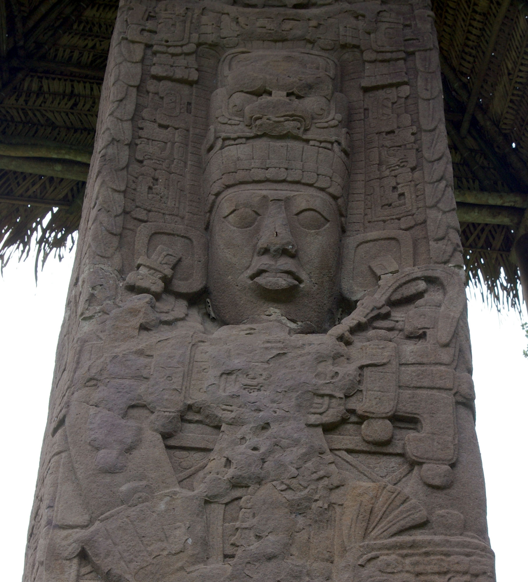 Quirigua Stela E, detail of north face